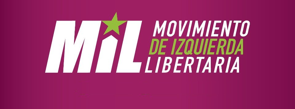 MIL logo